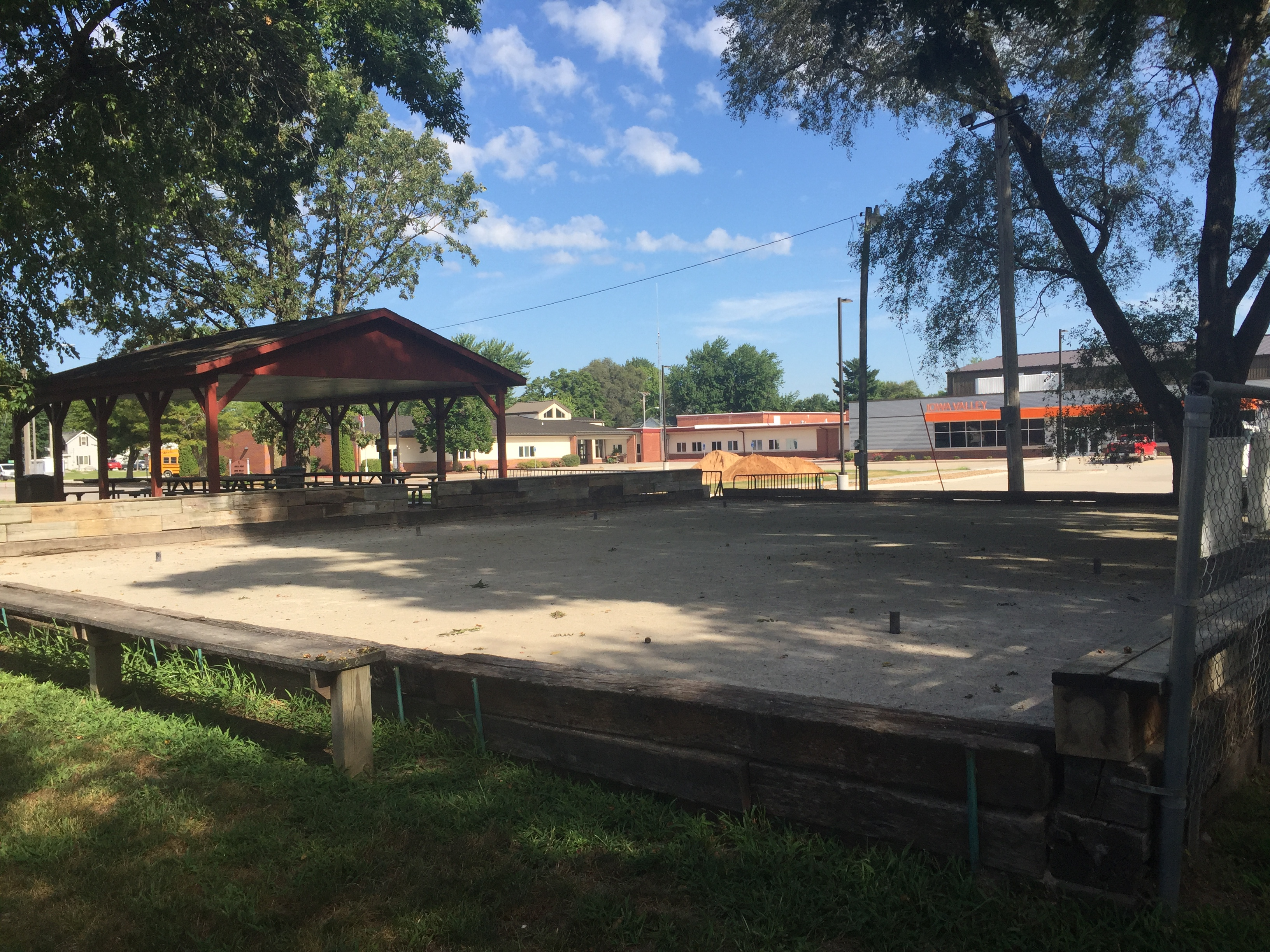 photos of Rolle Bolle Courts, Marengo, Iowa